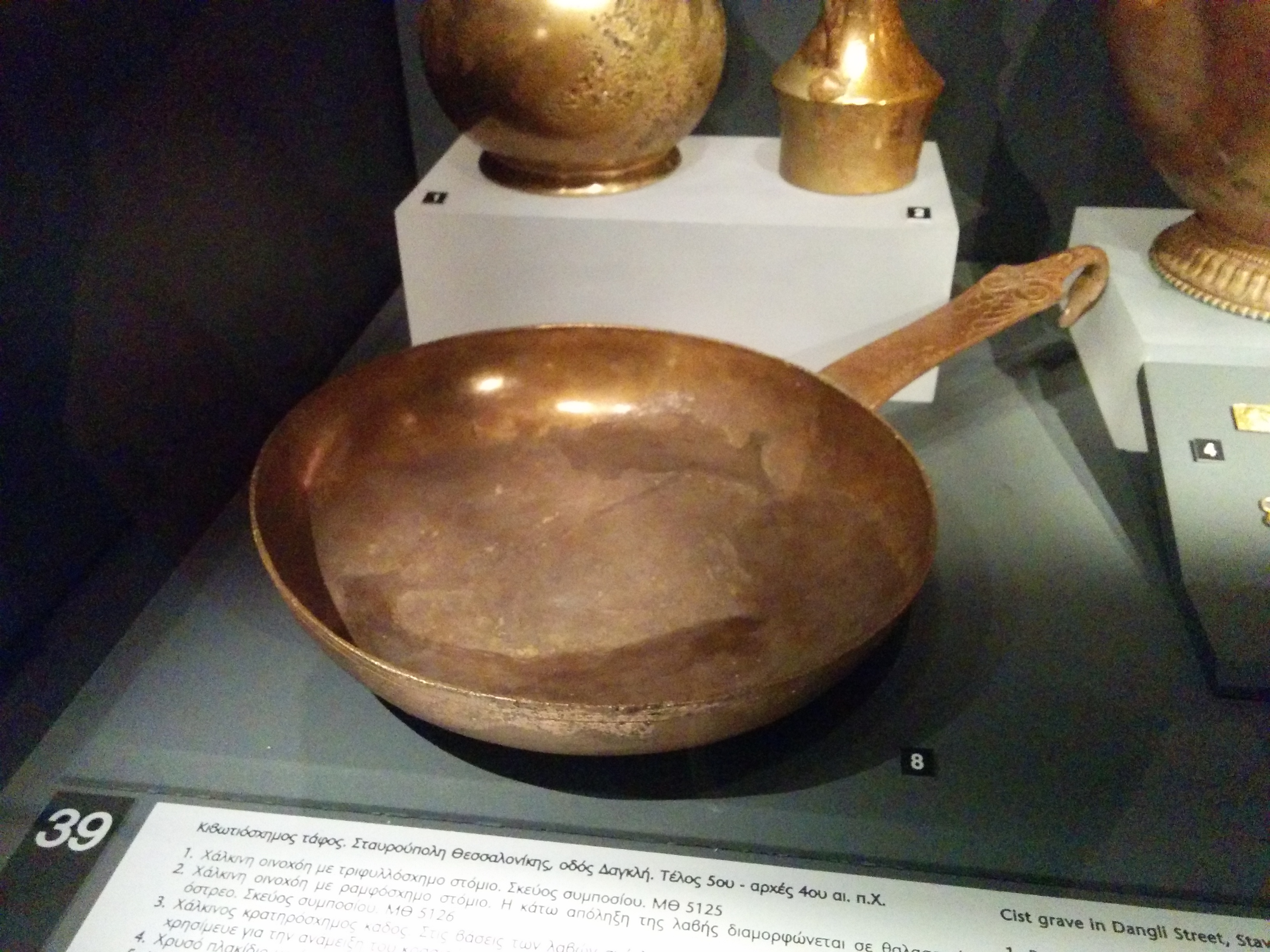 Copper frying pan (patera) dated 5th to 4th century B.C., discovered in the Stavroupoli area of Thessaloniki. The handle is ornamented with floral engraving and ends up in the shape of a goose head.